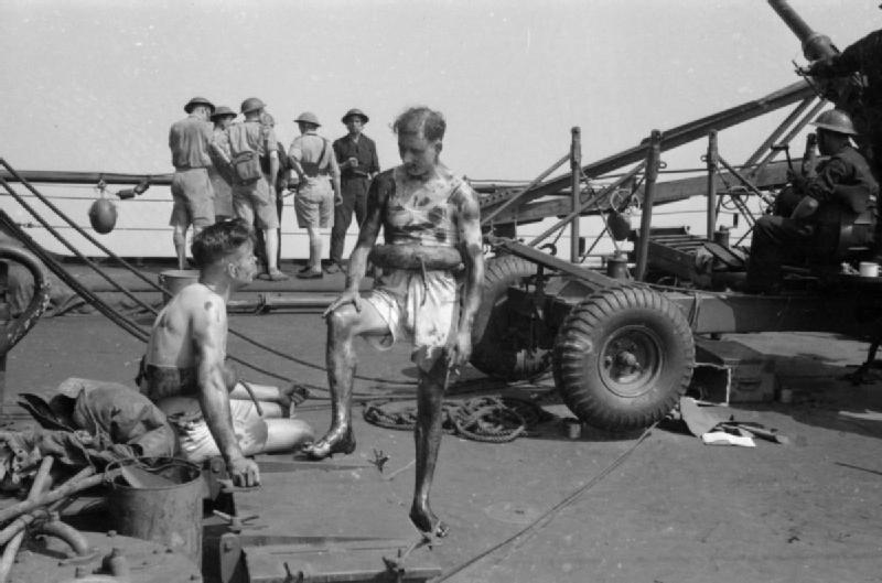 Men smothered in fuel oil taking a breath of fresh air on the flight deck of the cruiser HMS MANCHESTER after being rescued from below deck. One of them is wearing a life preserver. Whilst taking part in convoy duty to Malta in the Mediterranean, the cruiser had been hit by an aerial torpedo and the rescue party was bringing up crewmen trapped below decks.